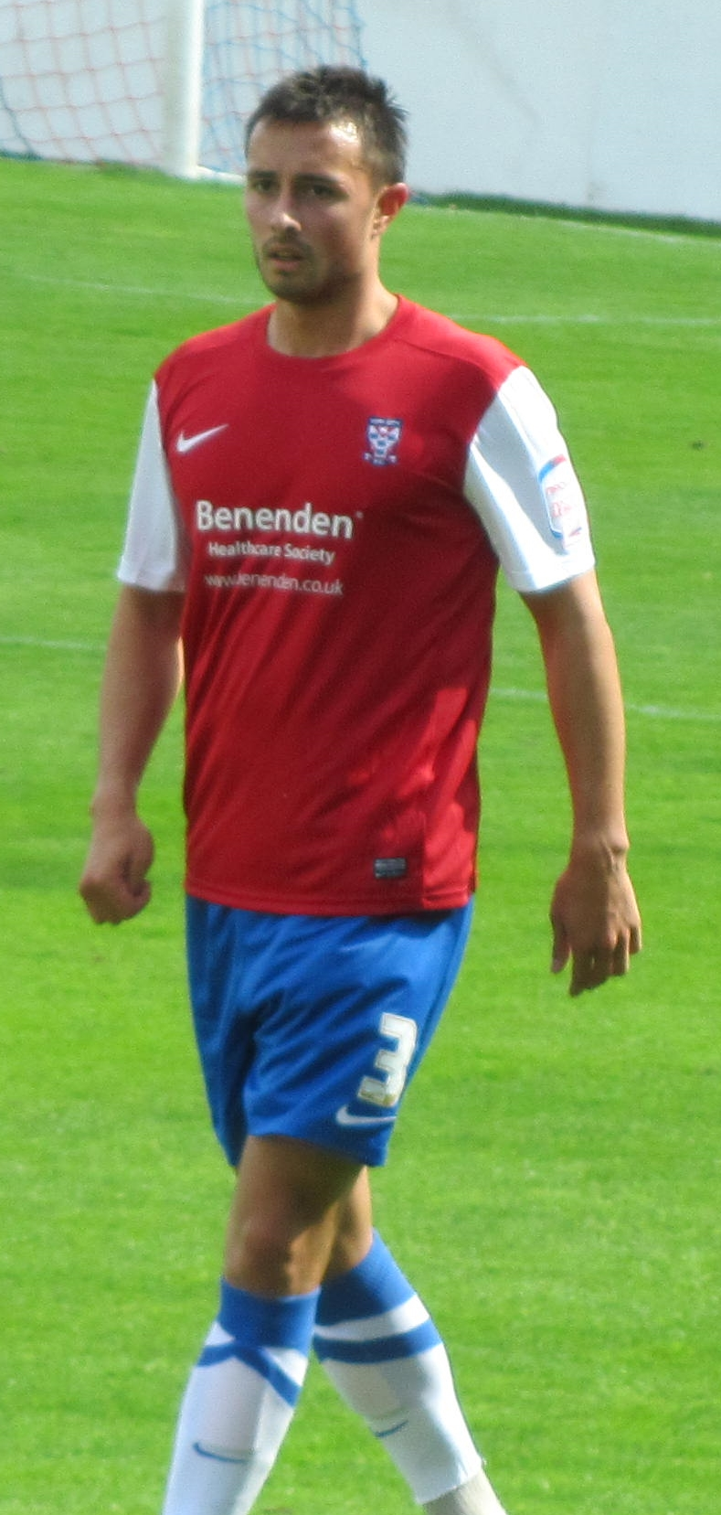 Danny Blanchett playing for York City against Oldham Athletic at Bootham Crescent, York on 21 July 2012